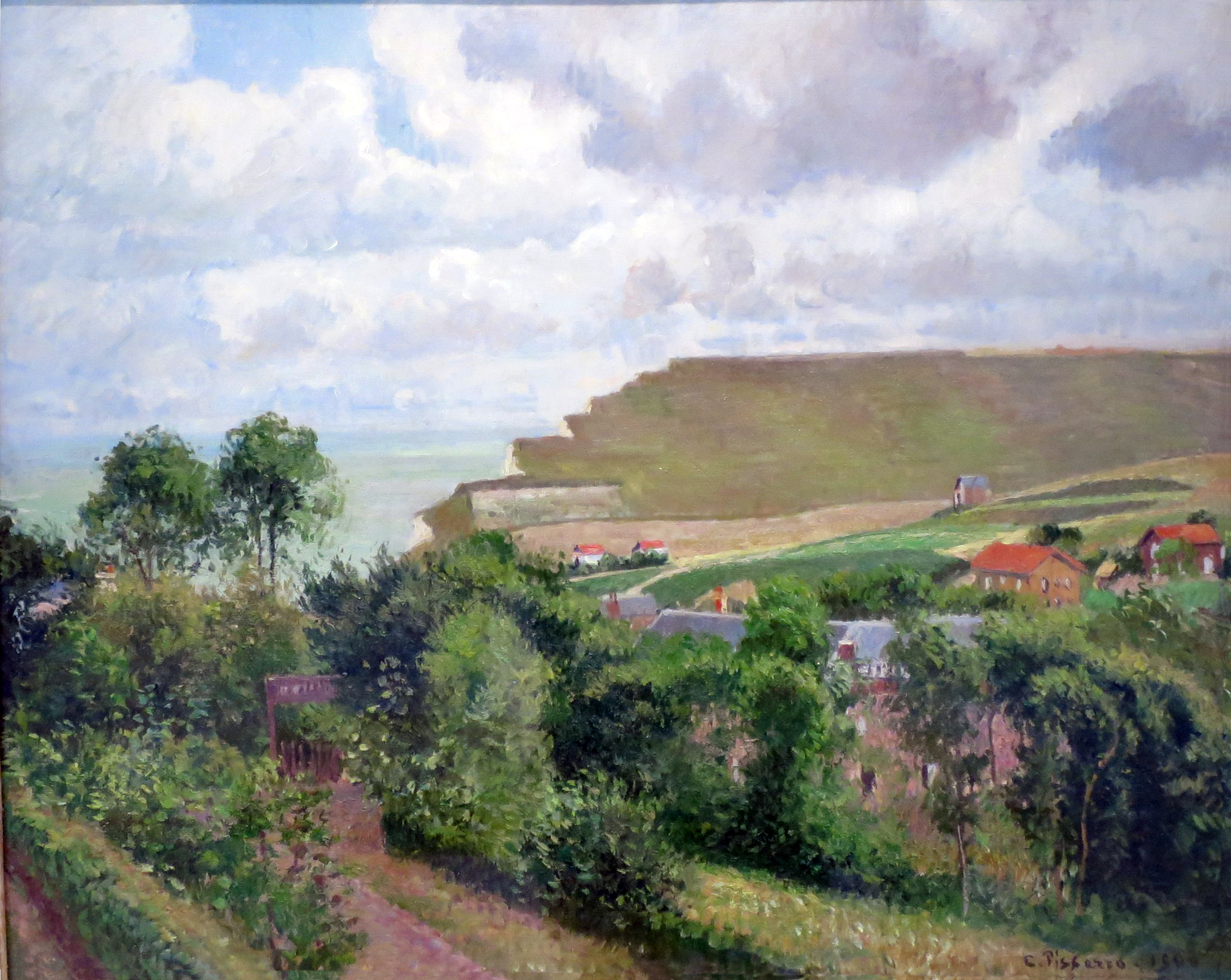 View of Berneval by Camille Pissarro, 1900, oil on canvas, Norton Simon Museum